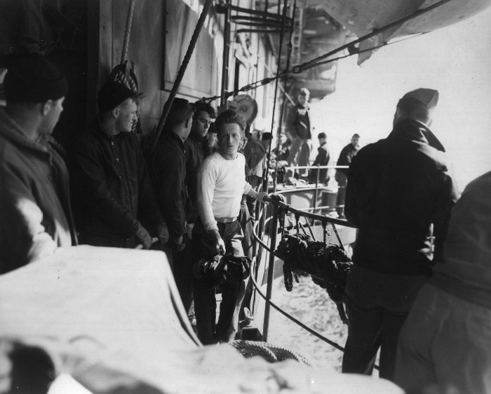 A survivor of the German submarine U-546 comes aboard USS Bogue